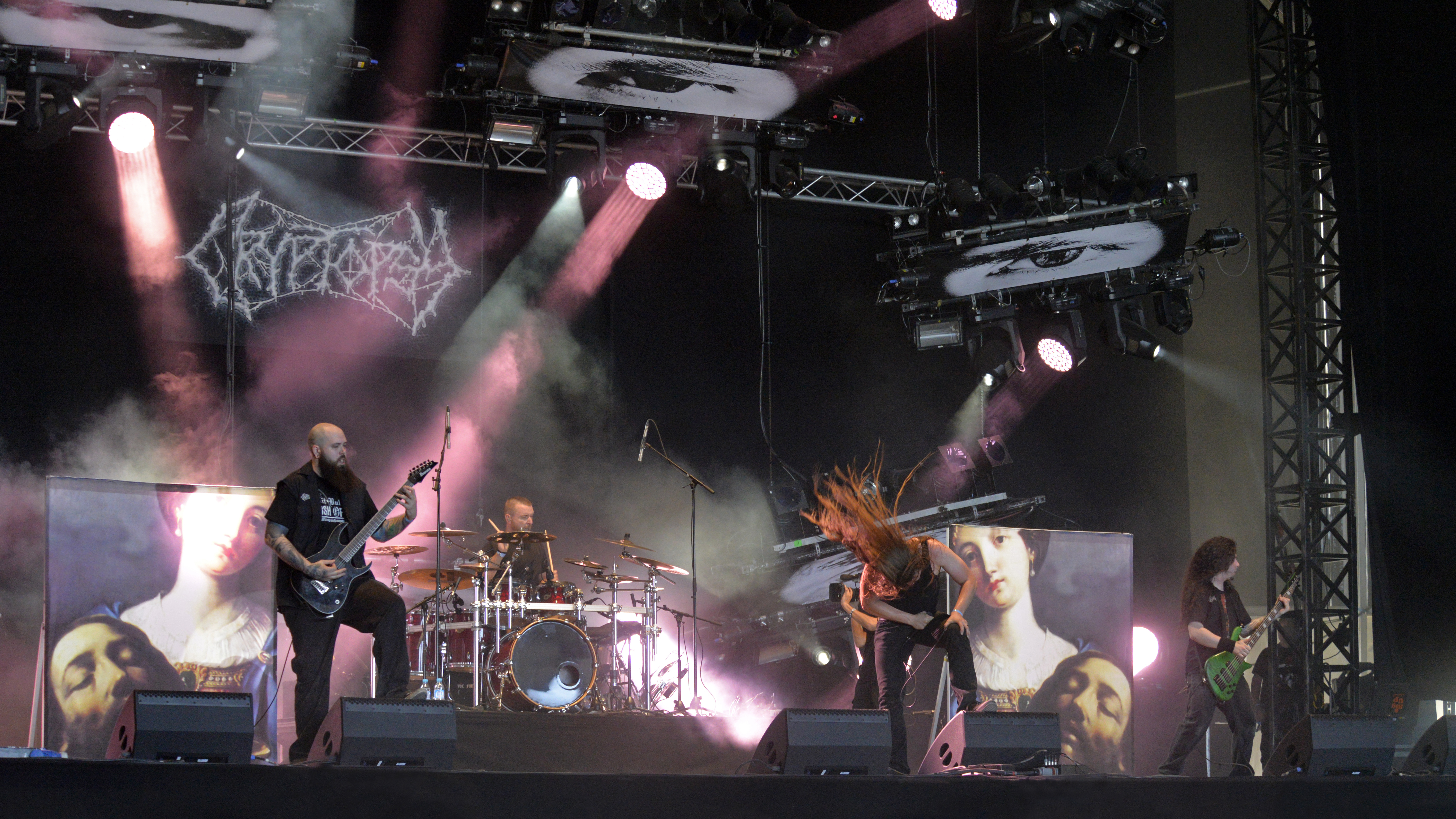 Canadian band Cryptosy at 2017 Hellfest, France.